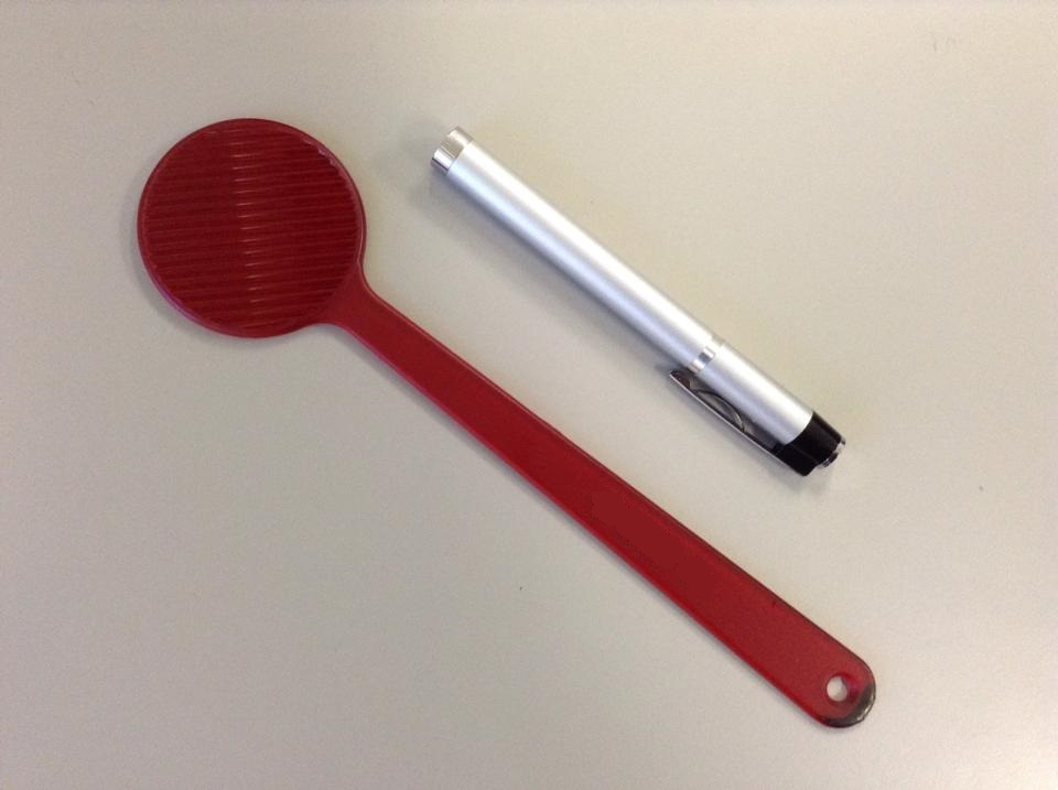 Maddox rod and pen tourch used in maddox rod testing